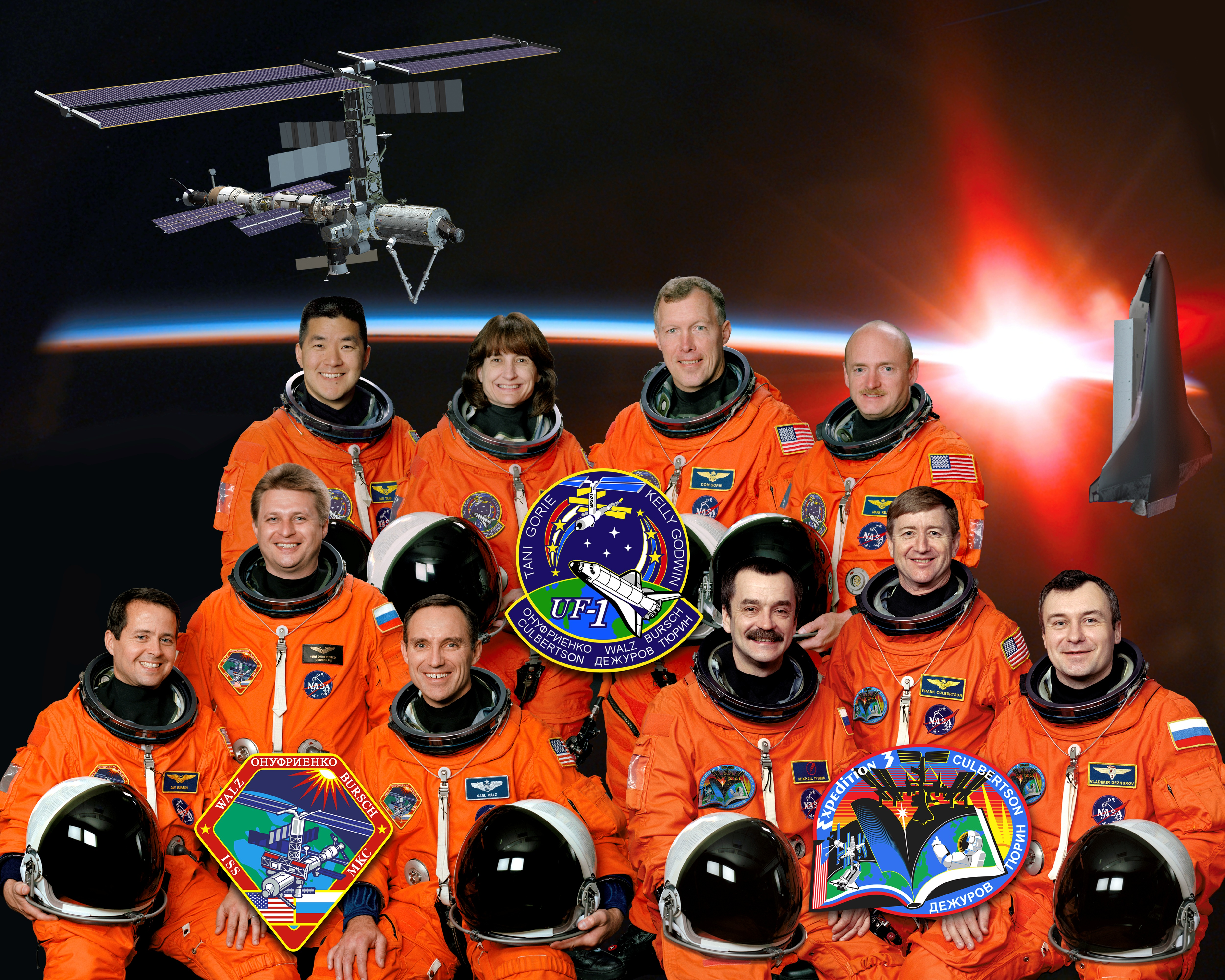 Photo of STS-108 crew, as well as ISS Expeditions 3 and 4. NASA photo STS108-S-002 taken August 2001. :Standing at rear (from the left) are the four STS-108 crew members Daniel M. Tani and Linda M. Godwin, both mission specialists; Dominic L. Gorie and Mark E. Kelly, commander and pilot, respectively. In front, from the left, are Daniel W. Bursch, Yuri Onufrienko, Carl E. Walz, Mikhail Tyurin, Frank L. Culbertson and Vladimir N. Dezhurov. :Culbertson, ISS Expedition Three commander, as well as flight engineers Tyurin and Dezhurov, used the Space Shuttle Discovery on STS-105 to reach the station for a lengthy 128 day stay and then returned to Earth aboard Endeavour on STS-108. They were replaced aboard the orbital outpost by Onufrienko, Expedition Four commander, along with Bursch and Walz, both flight engineers. The Expedition Four crew accompanied the STS-108 crew into Earth orbit. Dezhurov, Tyurin and Onufrienko represent Rosaviakosmos.